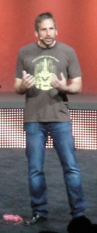 photo © 2011 taken by Doug Kline If you're interested in higher resolution versions of my images, contact me via my profile page.